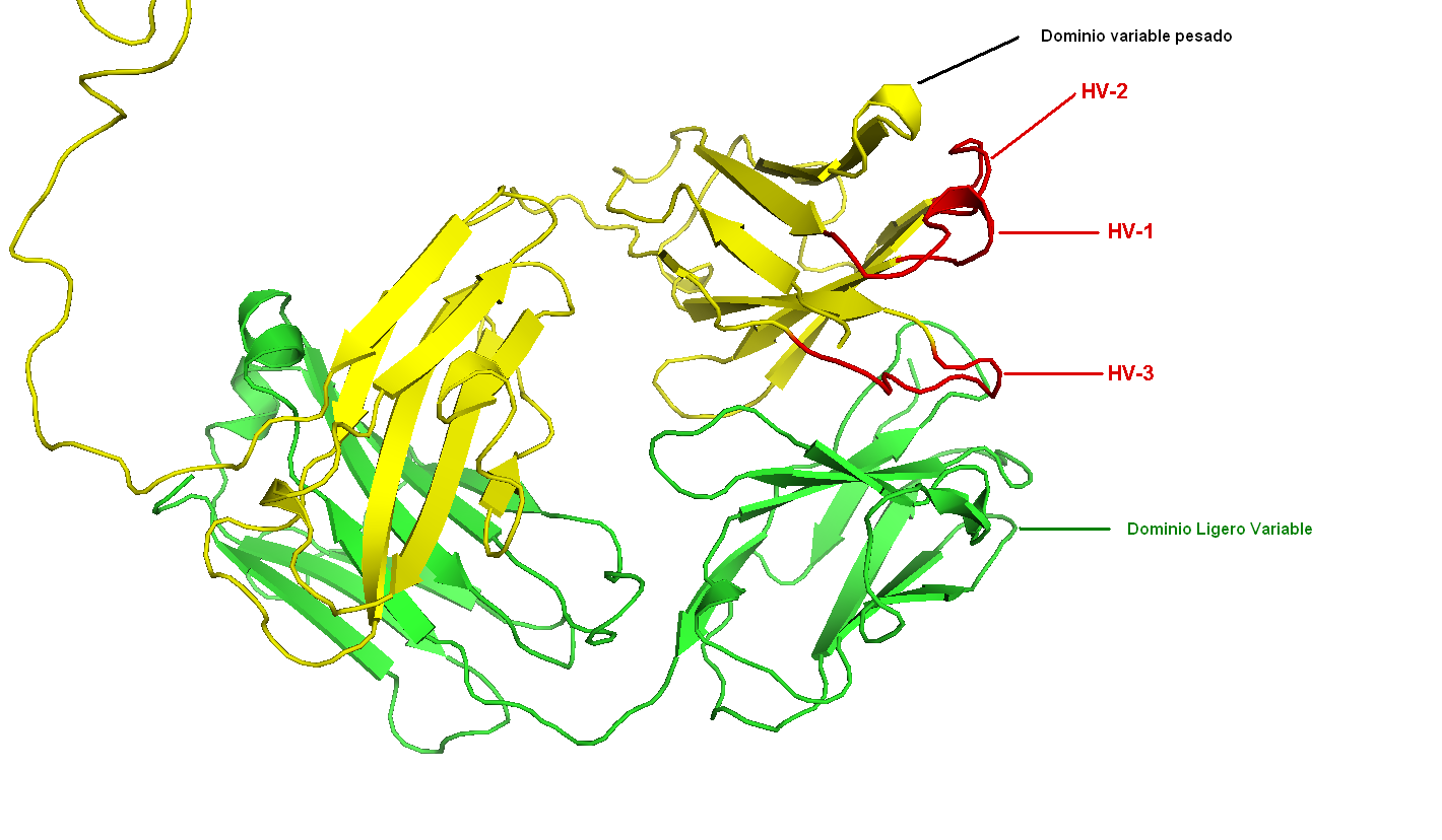 PDB 1IGT, created using Pymol